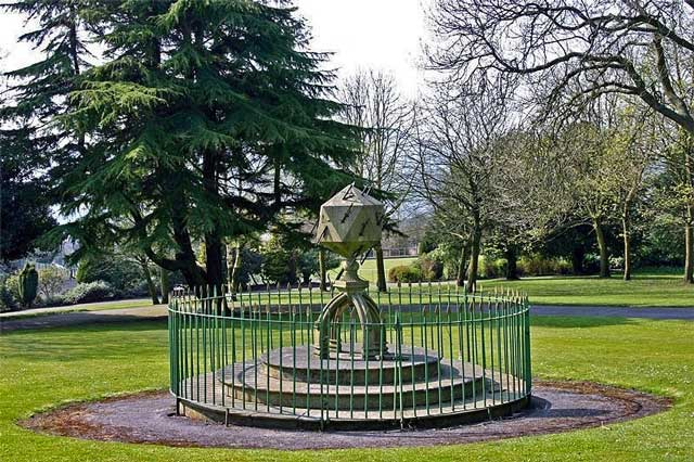 Sundial in Marsden Park, Nelson, Lancashire